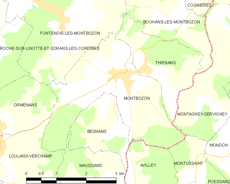 Map of French municipality